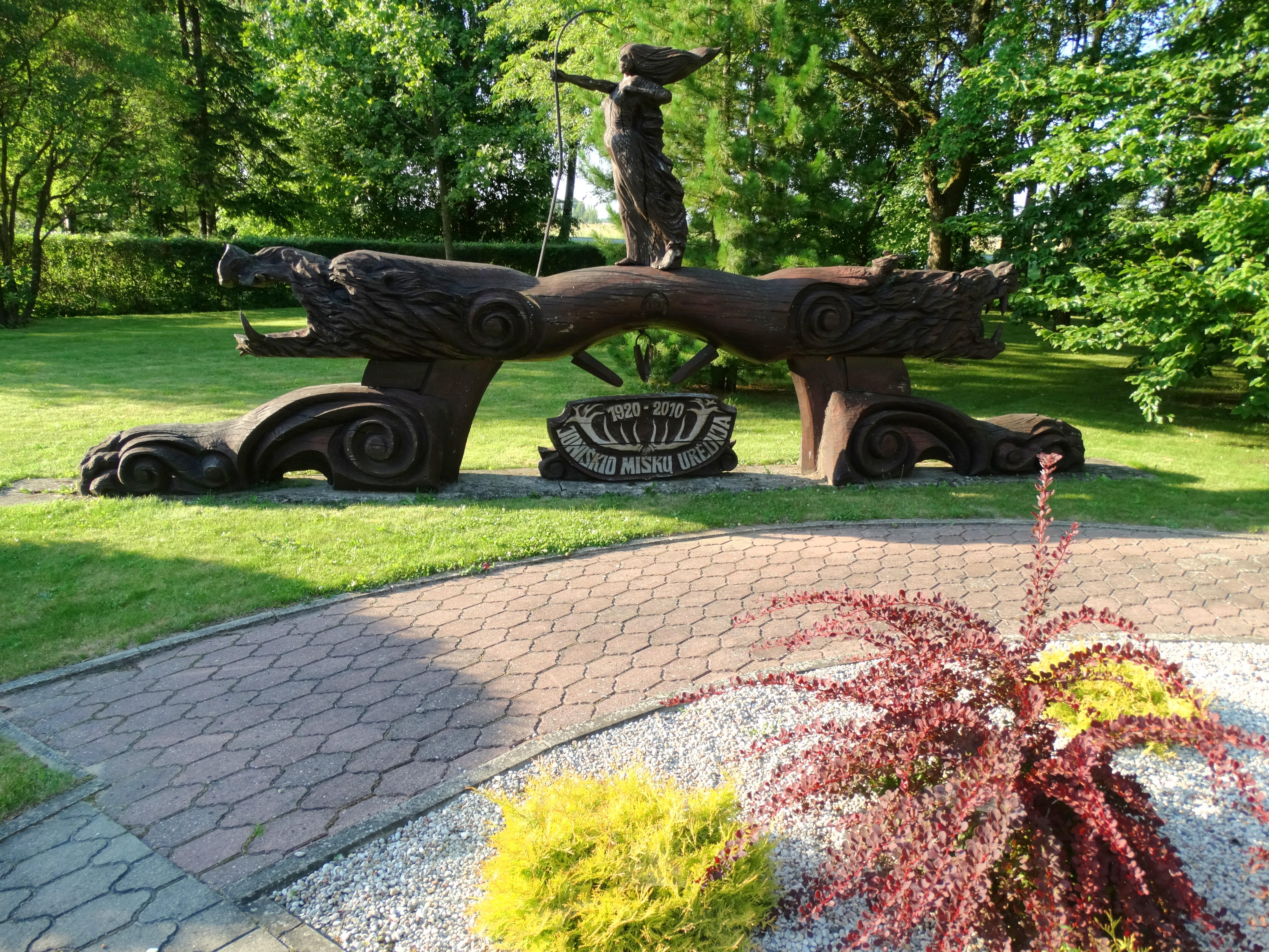 Forest enterprise, Joniškis district, Lithuania